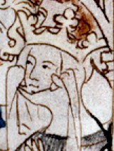 Margaret of Brabant (Detail from File:John of Luxemburg-Wedding.jpg)